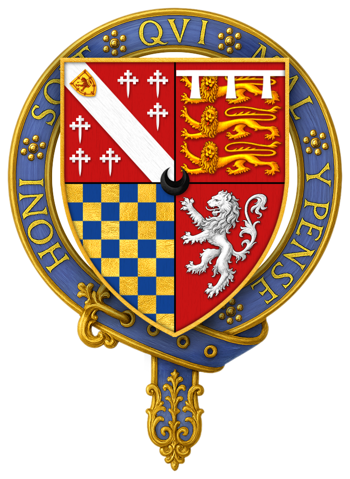 Coat of arms of Sir Edward Howard, KG